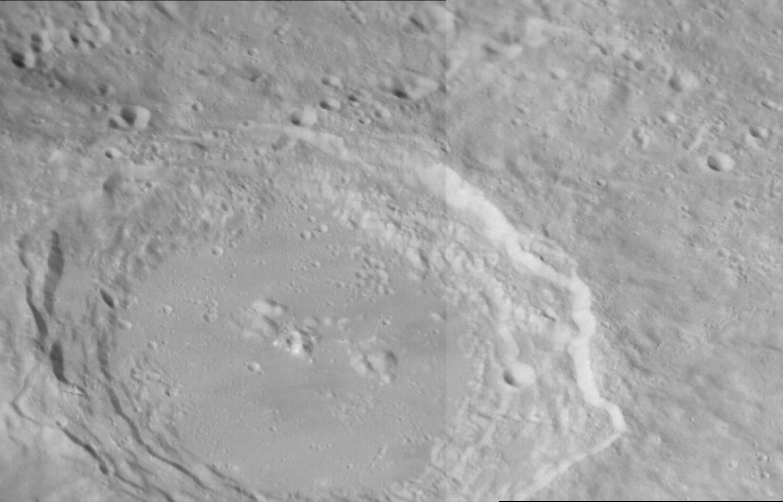 Oblique view of Eastman crater on Mercury. Mosaic of MESSENGER Narrow Angle Camera images. Approximate north is to lower right. Statistics for the left image are: Emission Angle: 43.1 Incidence Angle: 55.8 Latitude: 9.2 Longitude: 125.7 Phase Angle: 31.1